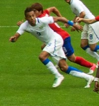 Pierre-Emerick Aubameyang playing for Gabon national football team against South Korea national football team in 2012 (cropped).